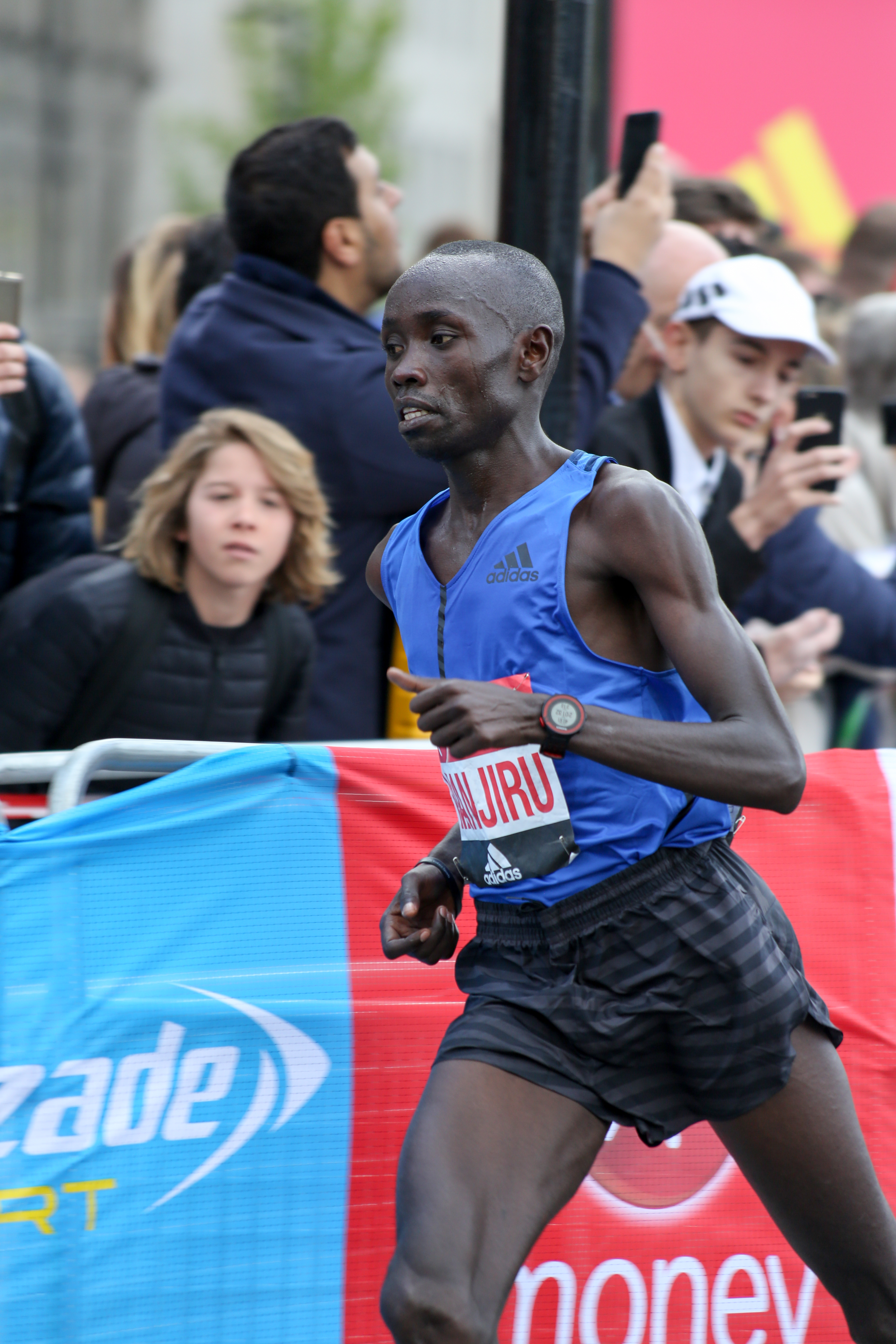 2017 London Marathon – Elite Men winner – Daniel Wanjiru